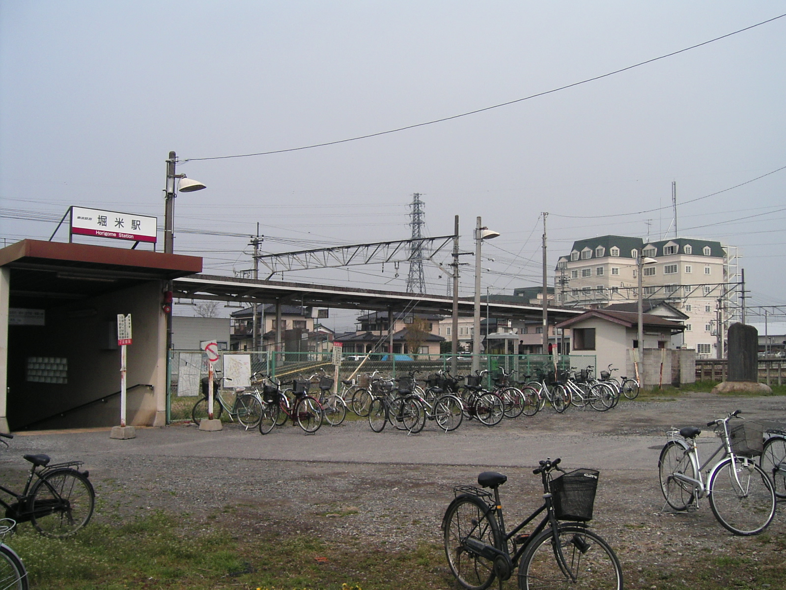 Horigome station(Tobu Sano Line) in Tochigi pref,Japan 堀米駅（東武佐野線）